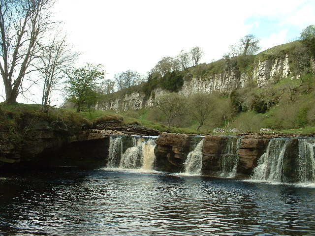 Wain Wath Force, near Keld. Less than 6ft high, it seems a bit underpowered to be a Force, but still very charming. The river is the River Swale.